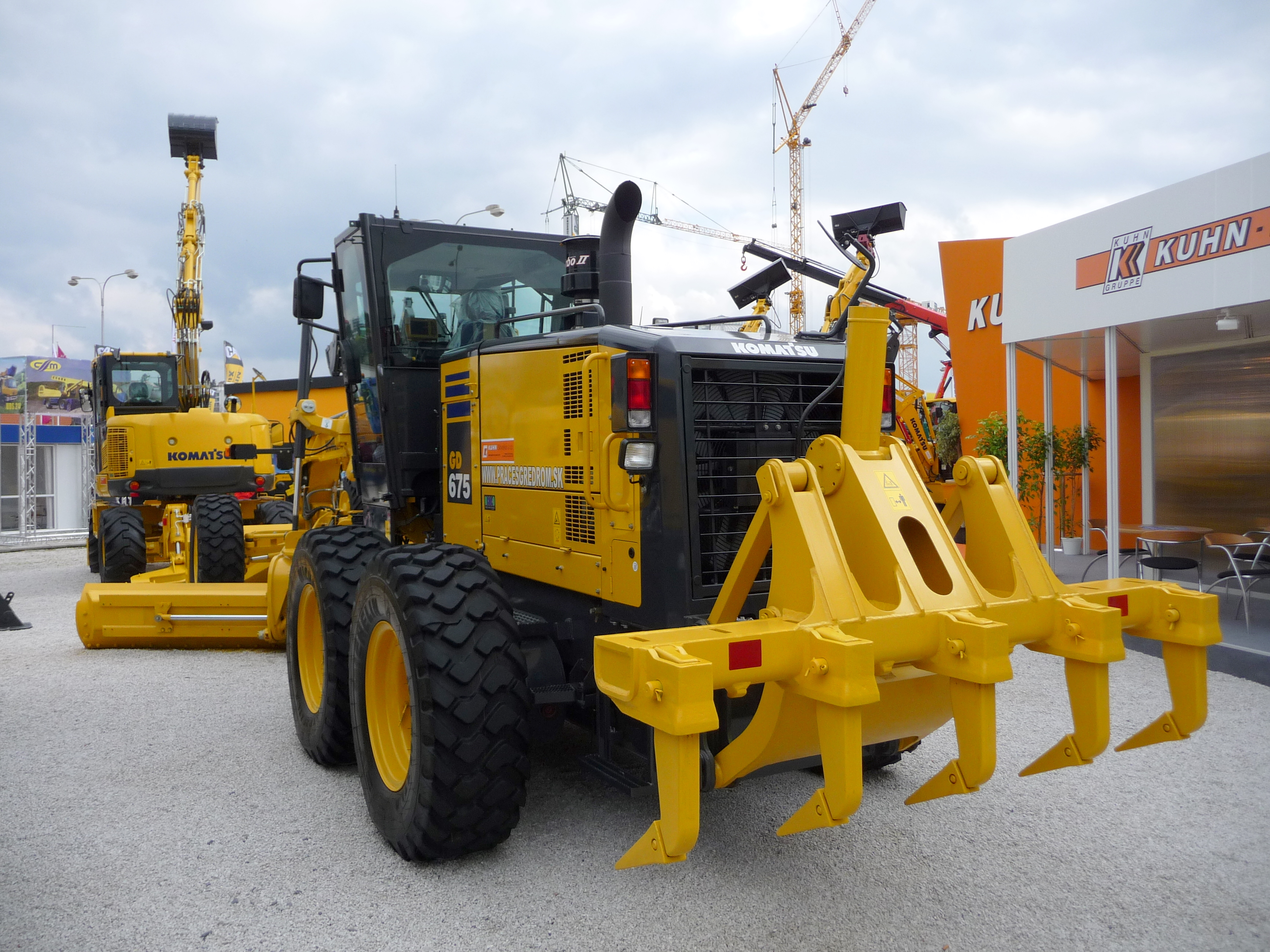 Grader Komatsu WD675, Building Fairs Brno 2011 -10-5-3-2◄►+2+3+5+10